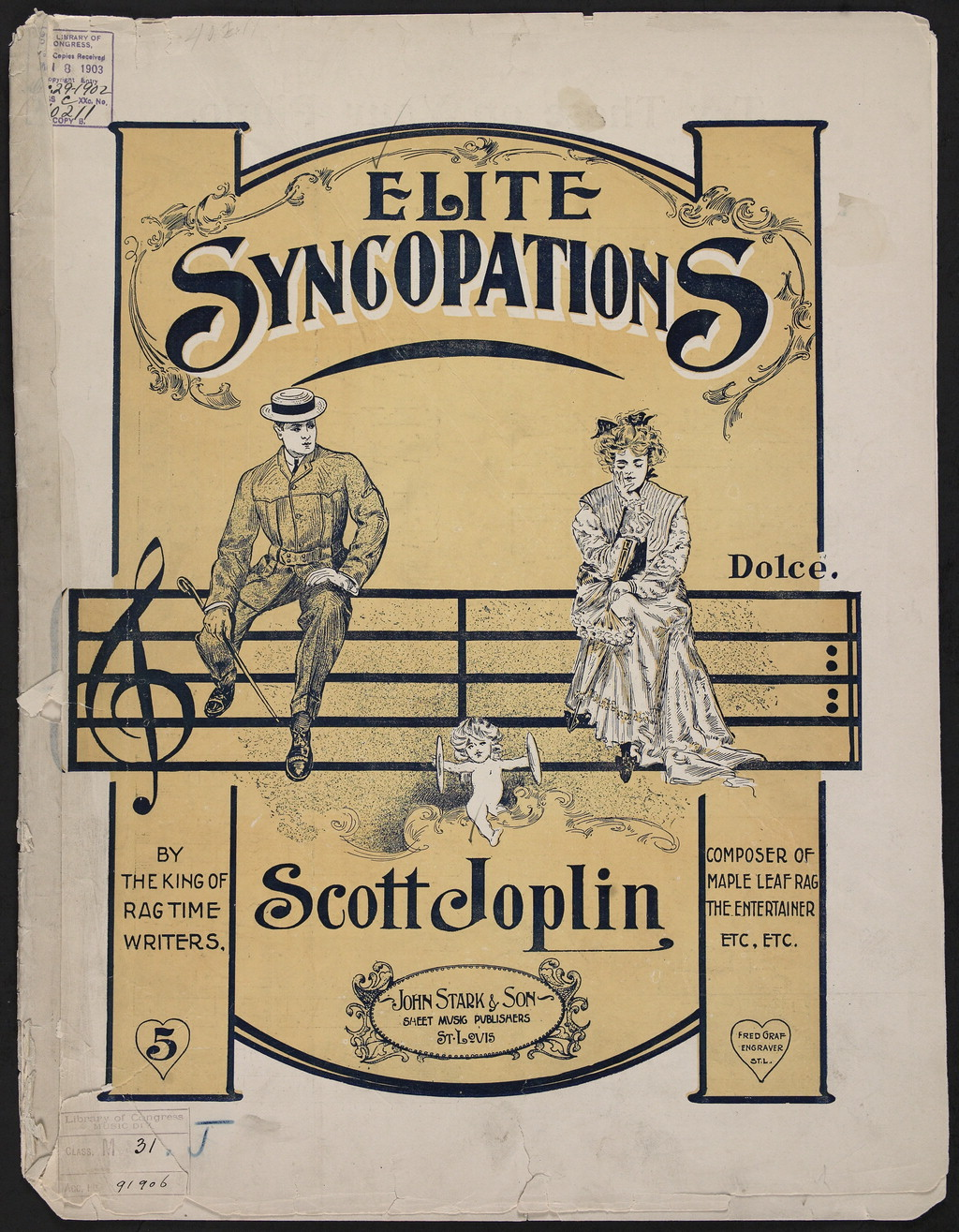 "Elite Syncopations" (sheet music) Page 1 of 5